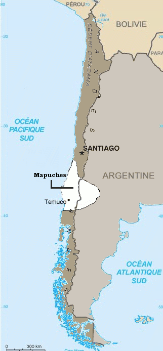 Getting clear Chilean and Argentinian territories occupied by the Mapuche, conducted by [1] [Automatically translated by Microsoft® Translator]